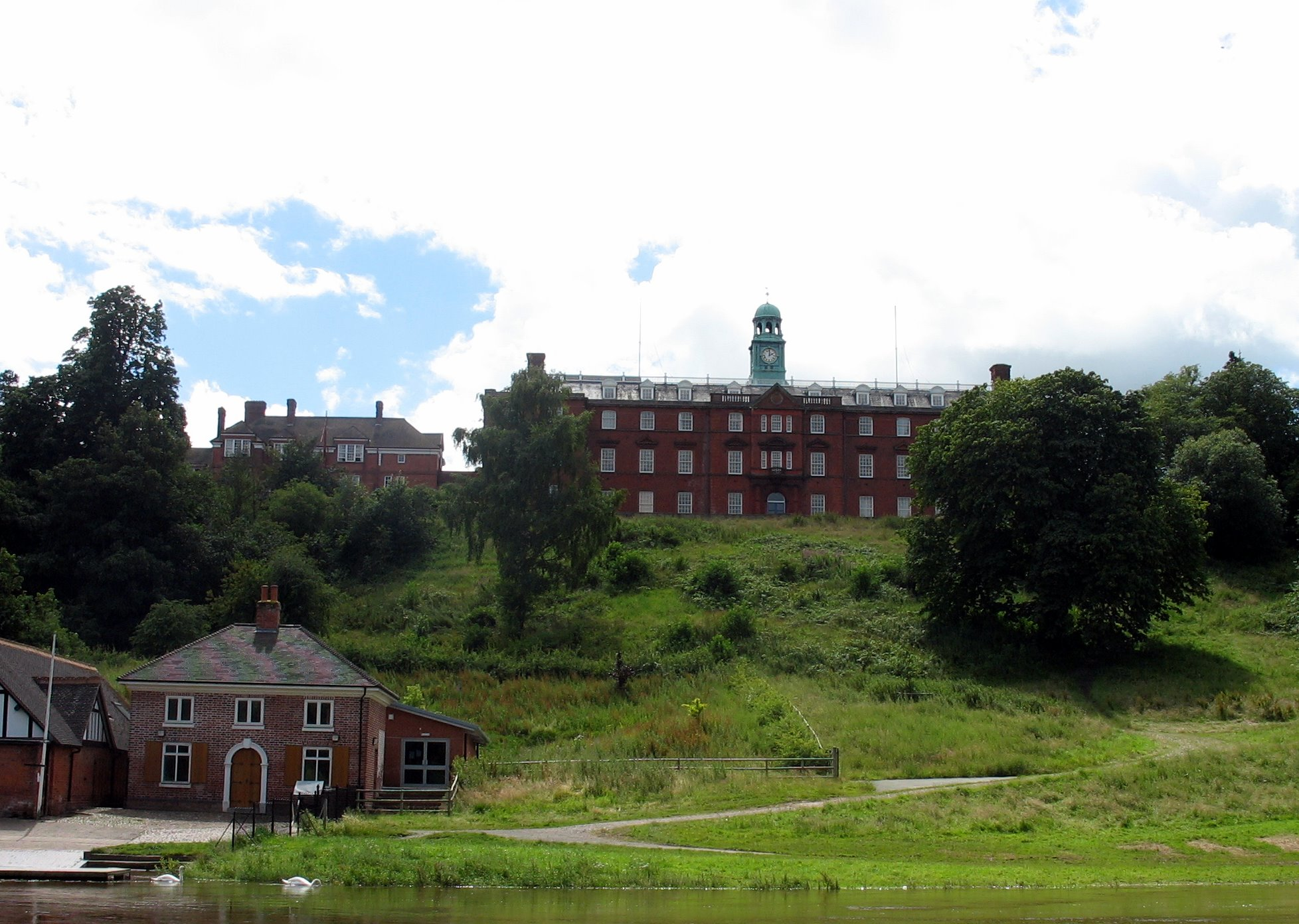 Shrewsbury School as viewed from across the River Severn, Shrewsbury, Shropshire. Photo by Chris Bayley.